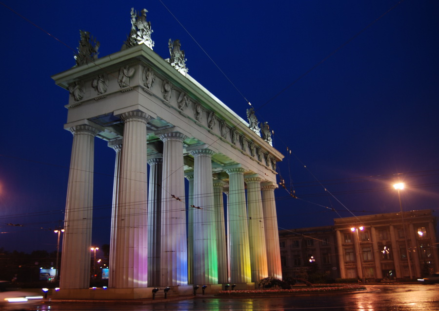 The Moscow Triumphal Gate was highlighted in rainbow colors by gay activists at 26 June 2010 in commemoration of Saint-Petersburg Gay Pride 2010